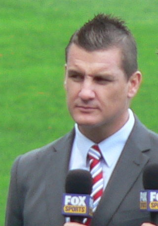 Glen Jakovich at Subiaco Oval in July 2010